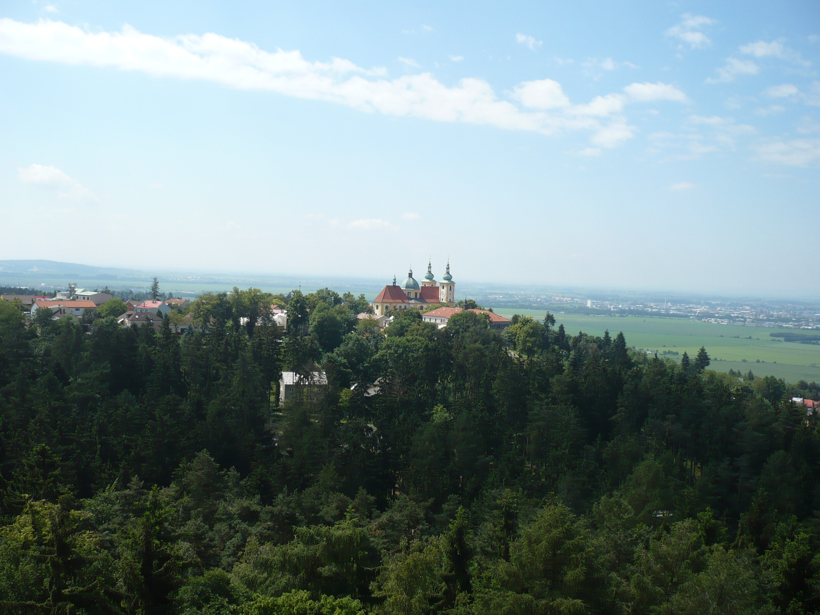 Observation Tower Svaty kopecek, Olomouc, Olomouc Region